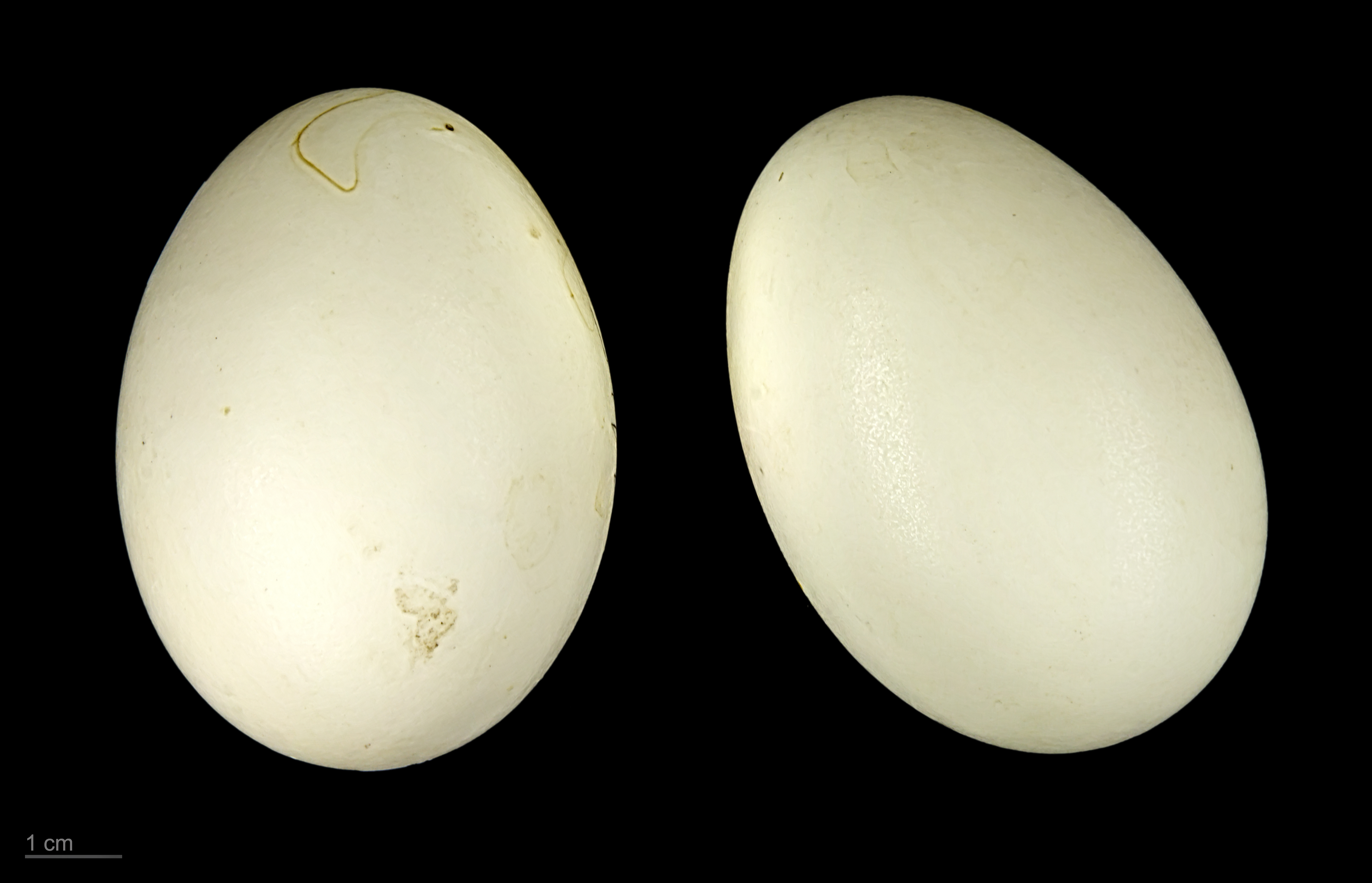 Eggs of ruddy shelduck Two specimens of the same spawn ; collection of Jacques Perrin de Brichambaut.